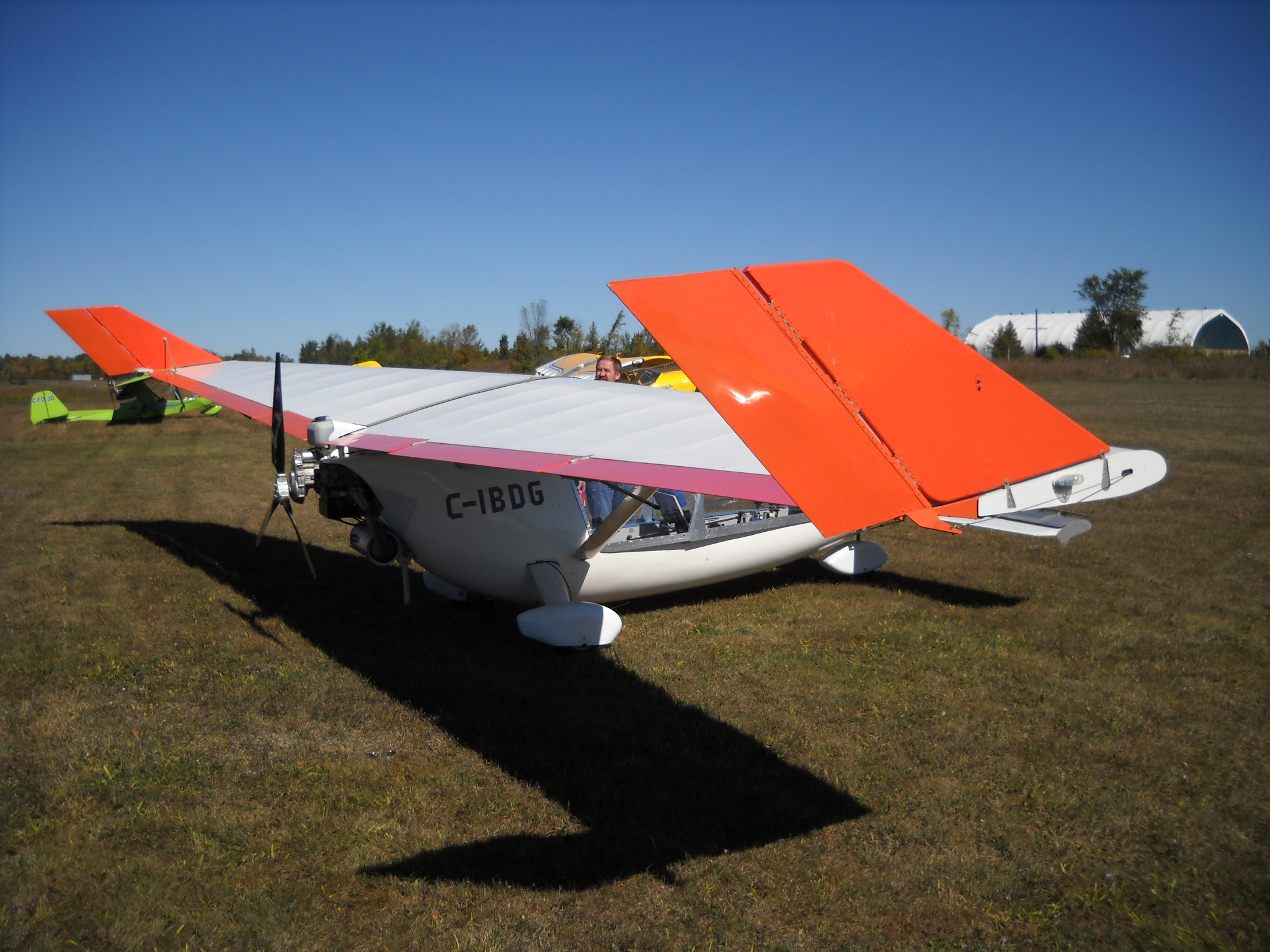 An American Aerolights Falcon XP at the Carleton Place Fly-in